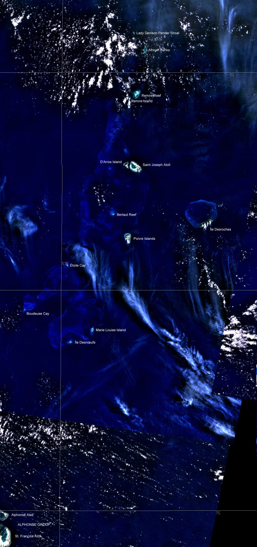 Satellite picture of the Amirante Islands group. Located in the Outer Islands (Coralline Seychelles) coral archipelago of the Seychelles islands and nation. NASA World Wind screenshot mosaic (of three parts north-south).